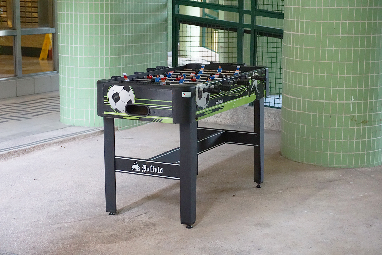 Lung Tak Court in Stanley, Hong Kong.